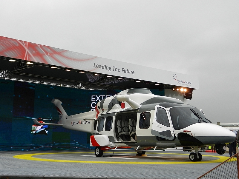 AgustaWestland AW189 Mockup on display 2011